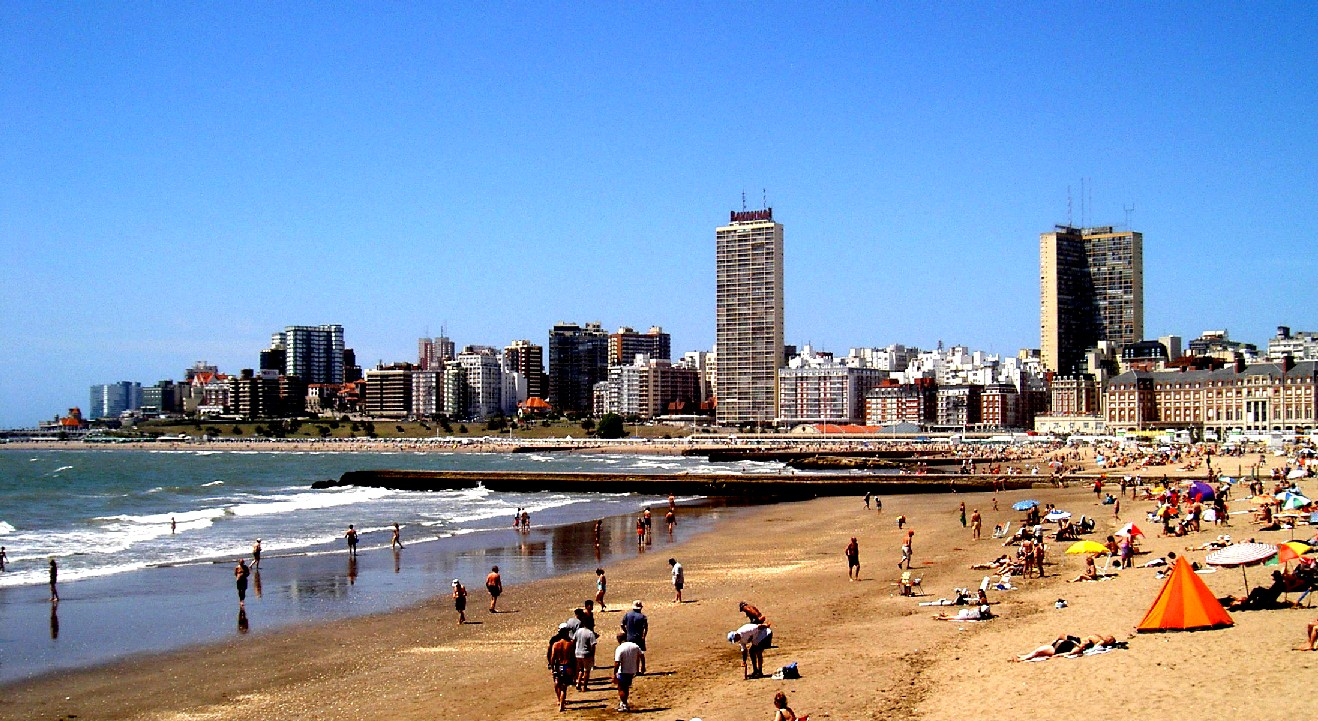 The beach in Mar del Plata, Atlantic coast of Argentina